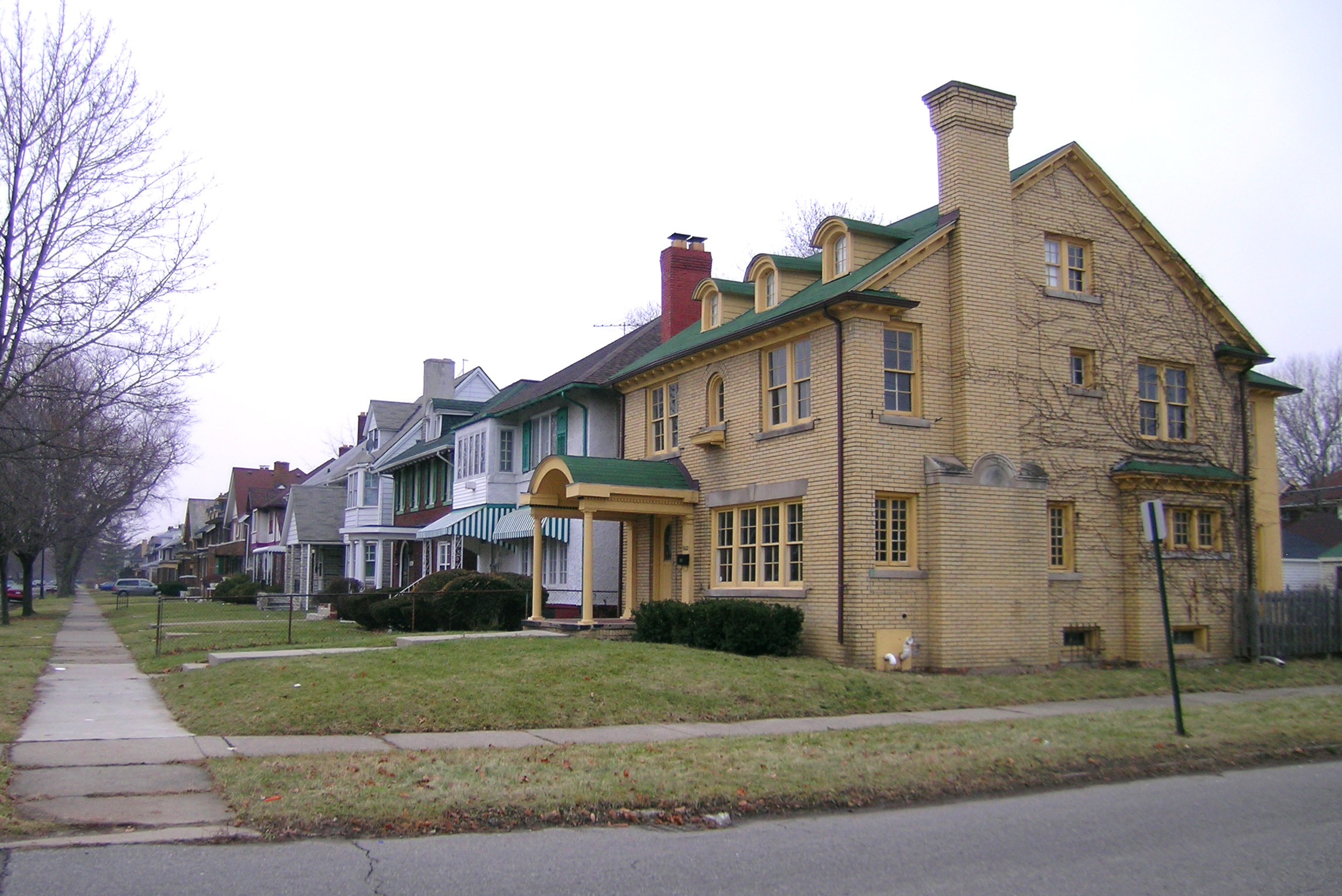 Street scape in Boston-Edison for use in BE article.